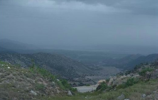 Kurram Agency of Pakistan, seen from Paktia Border line, Paktia province in Afghanistan